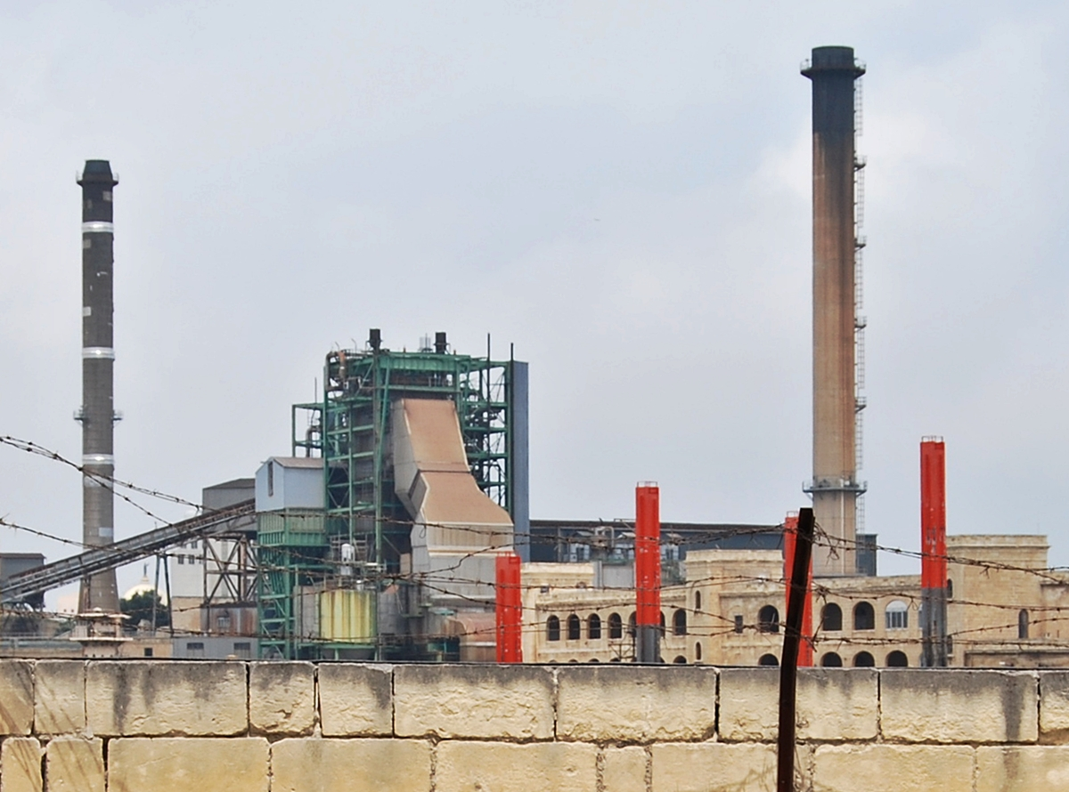 Marsa Power Station, Malta. Photo taken from an industrial area in Paola.